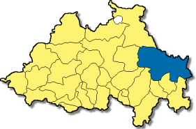 Locator maps of municipalities in Bavaria - District Eichstätt